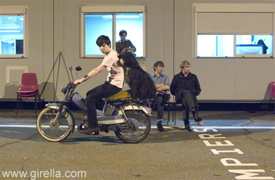 Girella. Image by Garvin Nolte, who granted permission for image to be licensed under GFDL.